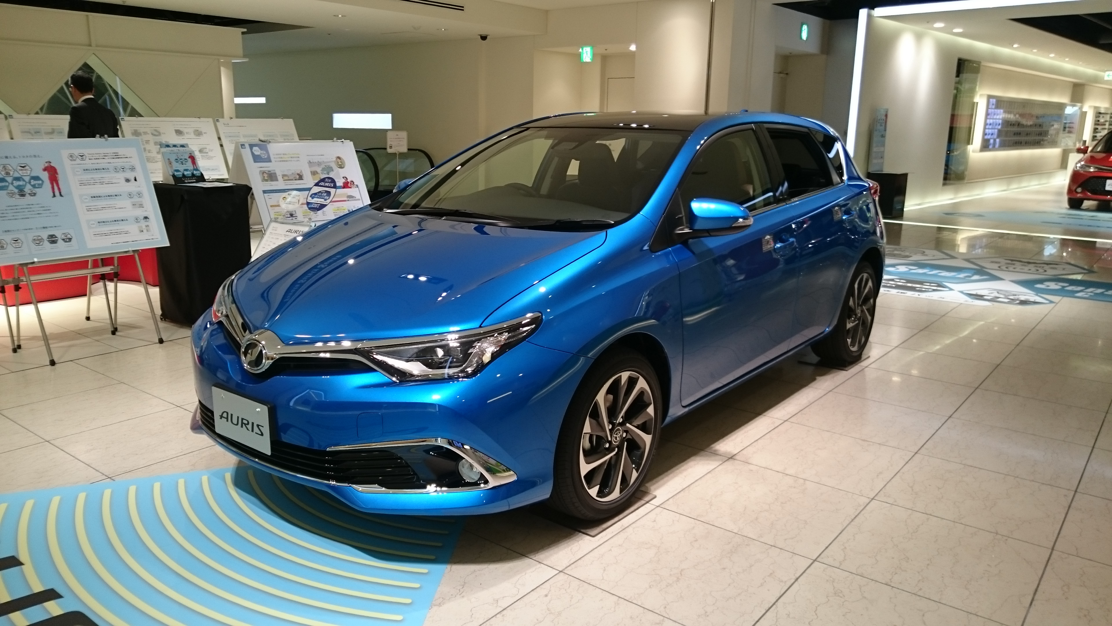 Toyota Auris 120T frontview